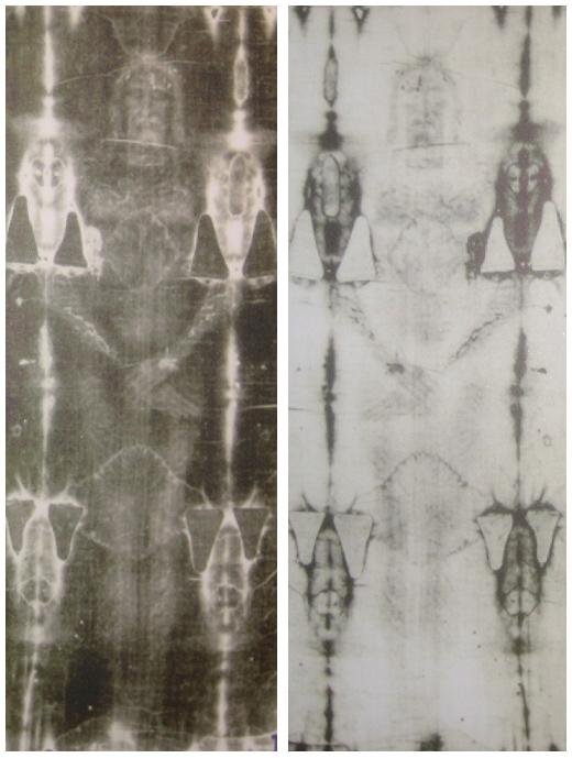 Printing (right) and a negative (left) of the Shroud of Turin.